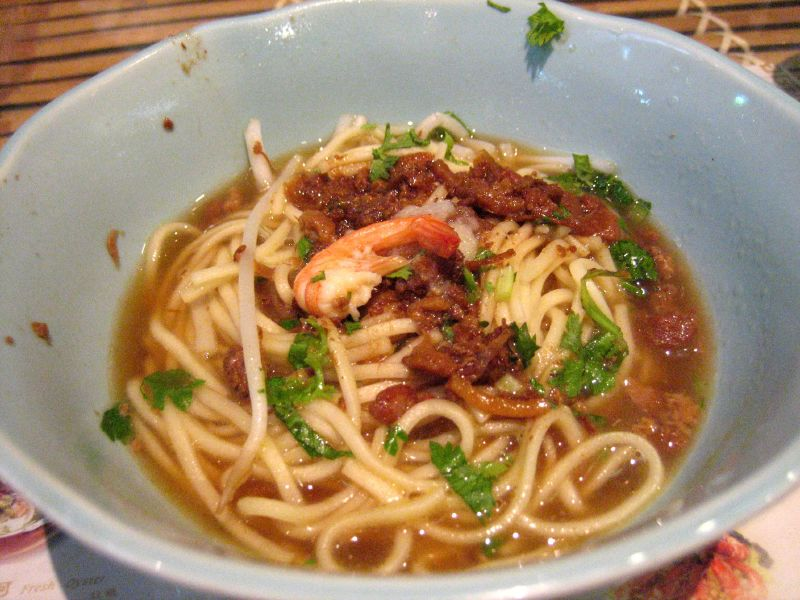 擔仔麵 danzaimian as served at the famous Slack Season Tan Tsi Noodles restaurant in Tainan. 度小月擔仔麵中正路16號。Tainan